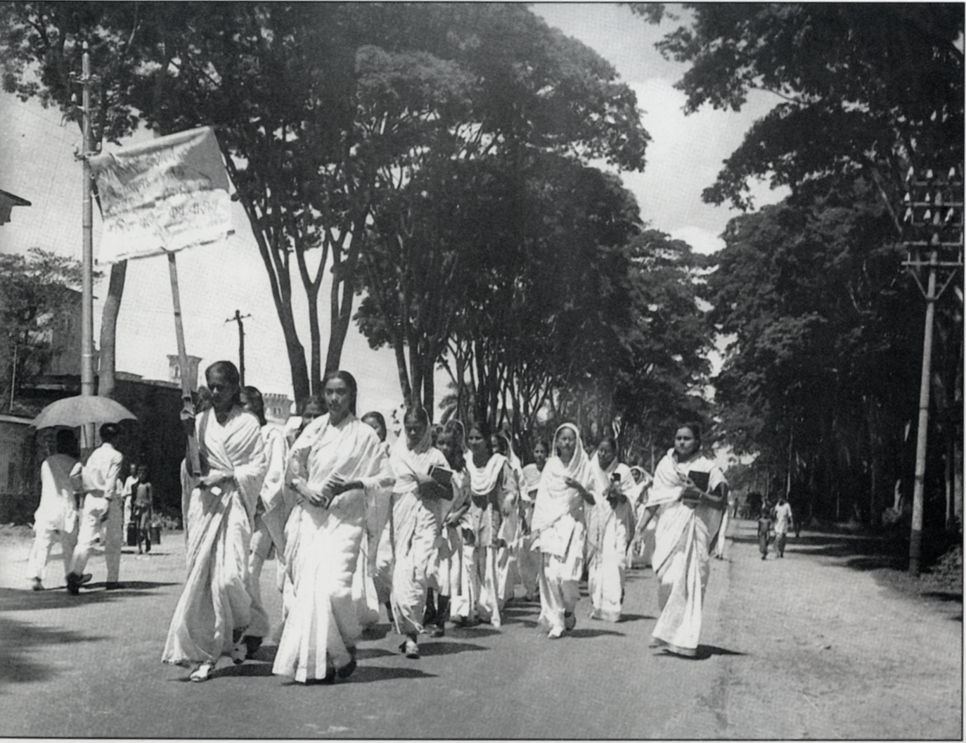 21st February morning, 1953. Female students of Dhaka University, festoons in hand in the procession.